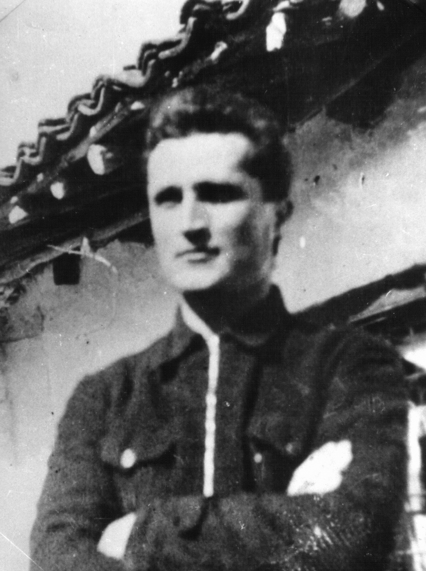 Ramiz Sadiku (1915—1943), Kosovar partisan